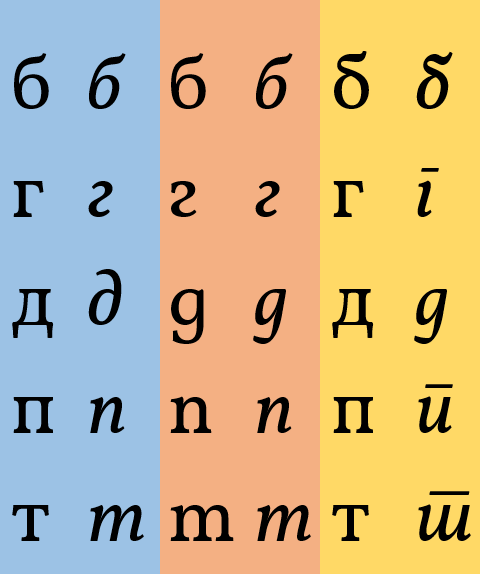 Cyrillic cursive lowercase letter variants: Russian (Eastern) Bulgarian (Western) Serbian/Macedonian (Southern)